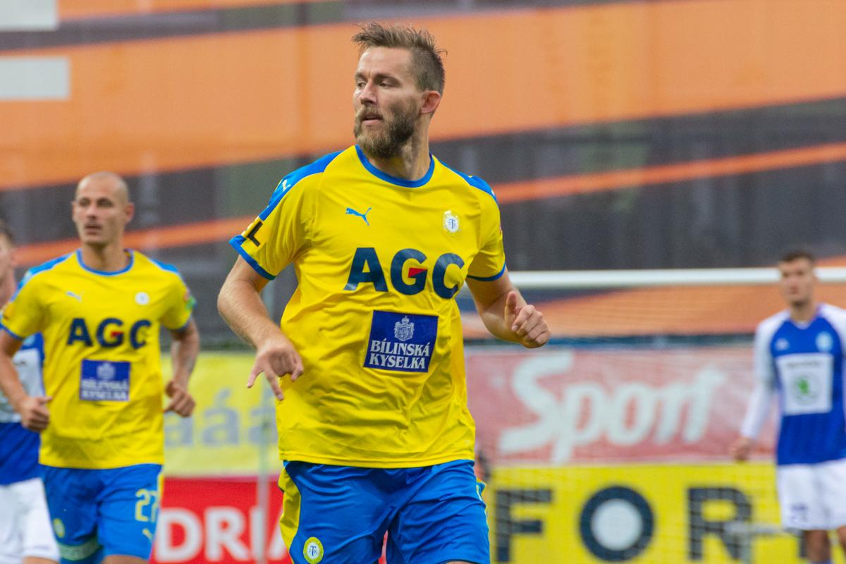 Jan Hošek during the game vs FK Mladá Boleslav